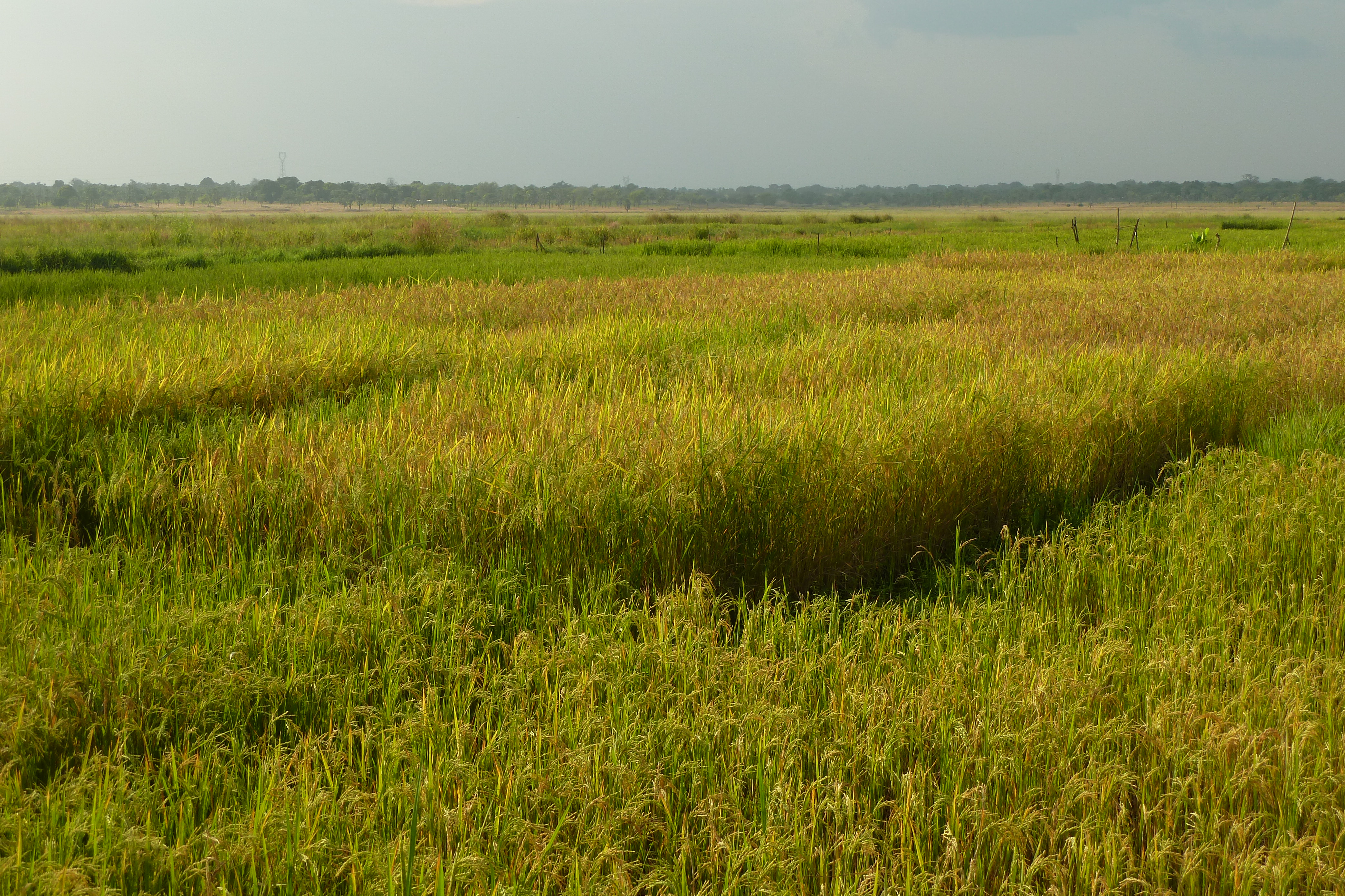 riz du bas-fonds - experiments at INERA station @ Banfora